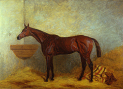 Painting of 1880 Champion, Painted inhis stable by Harry Hall